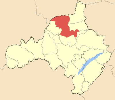 Locator map of Ptolemaidas municipality (Δήμος Πτολεμαΐδας) at Kozani perfecture, Greece.